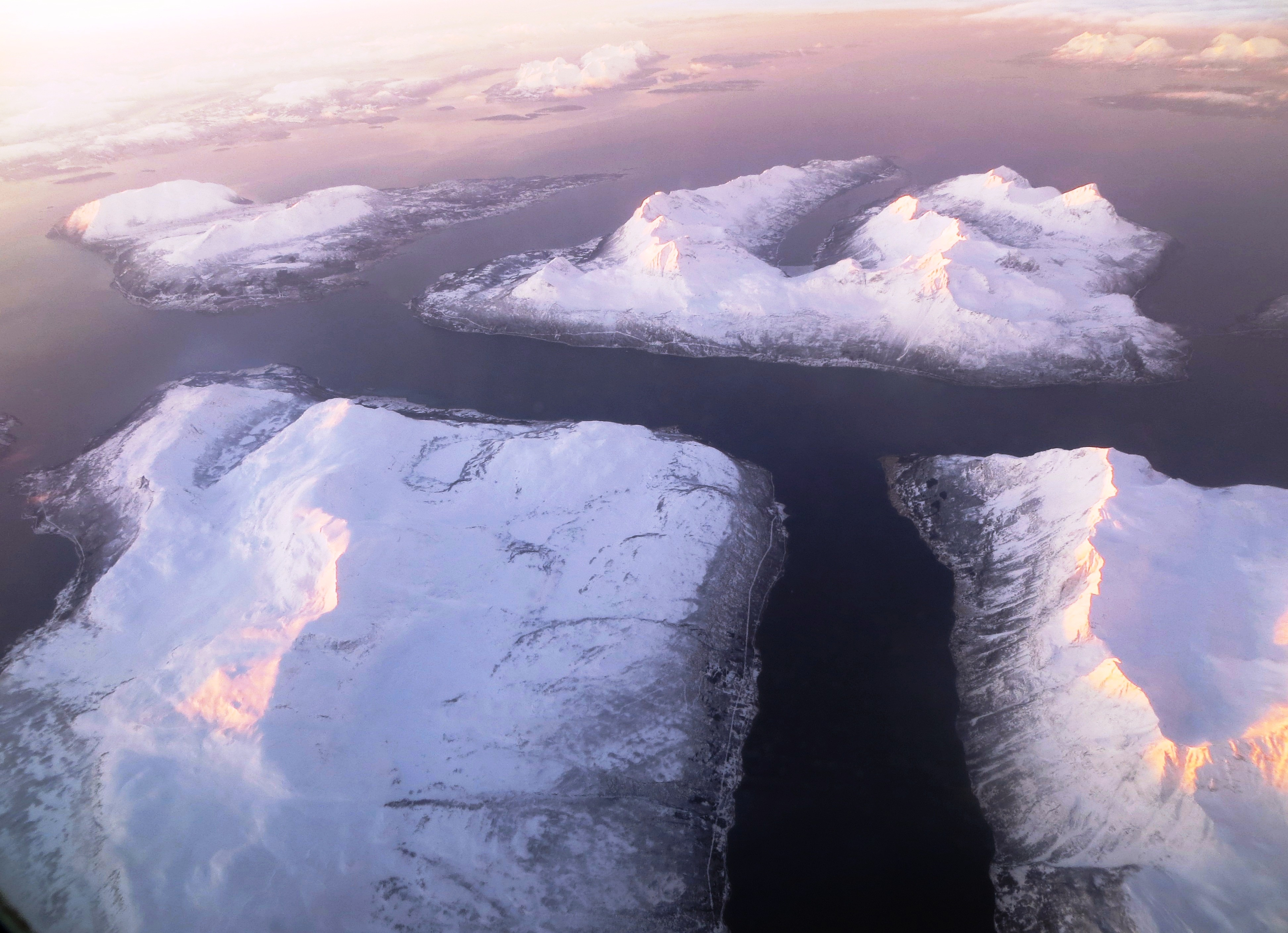 Aerial view from the east towards the west, of the fjord and islands area around Ibestad. Troms county of northern Norway. The two islands belong to Ibestad municipality: the larger island is Andørja, the one on the left is Rolla. The mainland, from left (south) towards right (north), belongs to the municipalities of Gratangen, Lavangen and Salangen, named by the respective fjords bearing the same names.